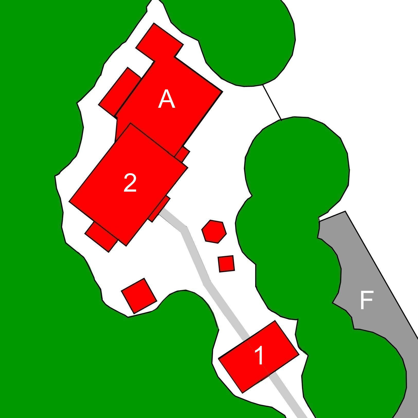 Layout of Gyôgan-ji (Izumi), Japan